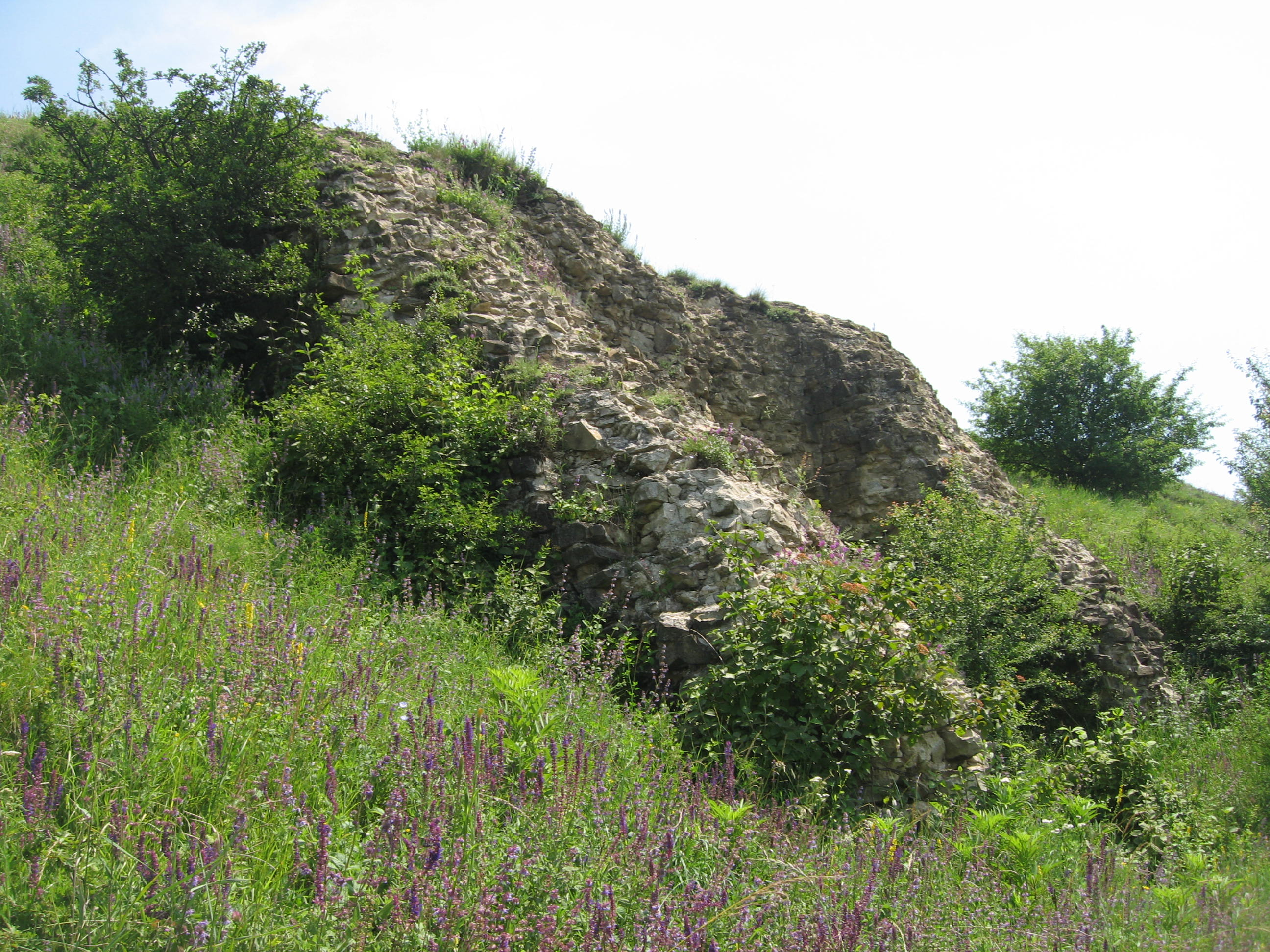 Șcheia Fortress (The Western Fortress of Suceava).